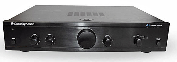 Cambridge Audio A1 hybrid Amp